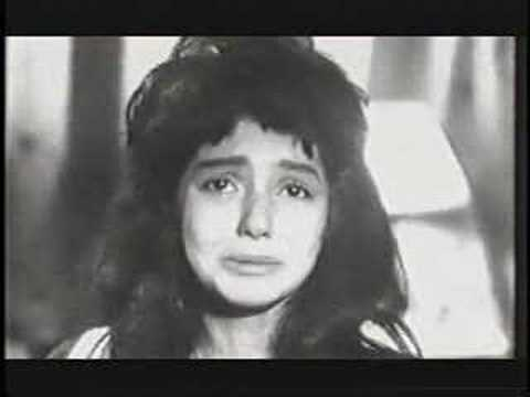 Googoosh acting as a kid (image is a screenshot from Iran's daughter film)